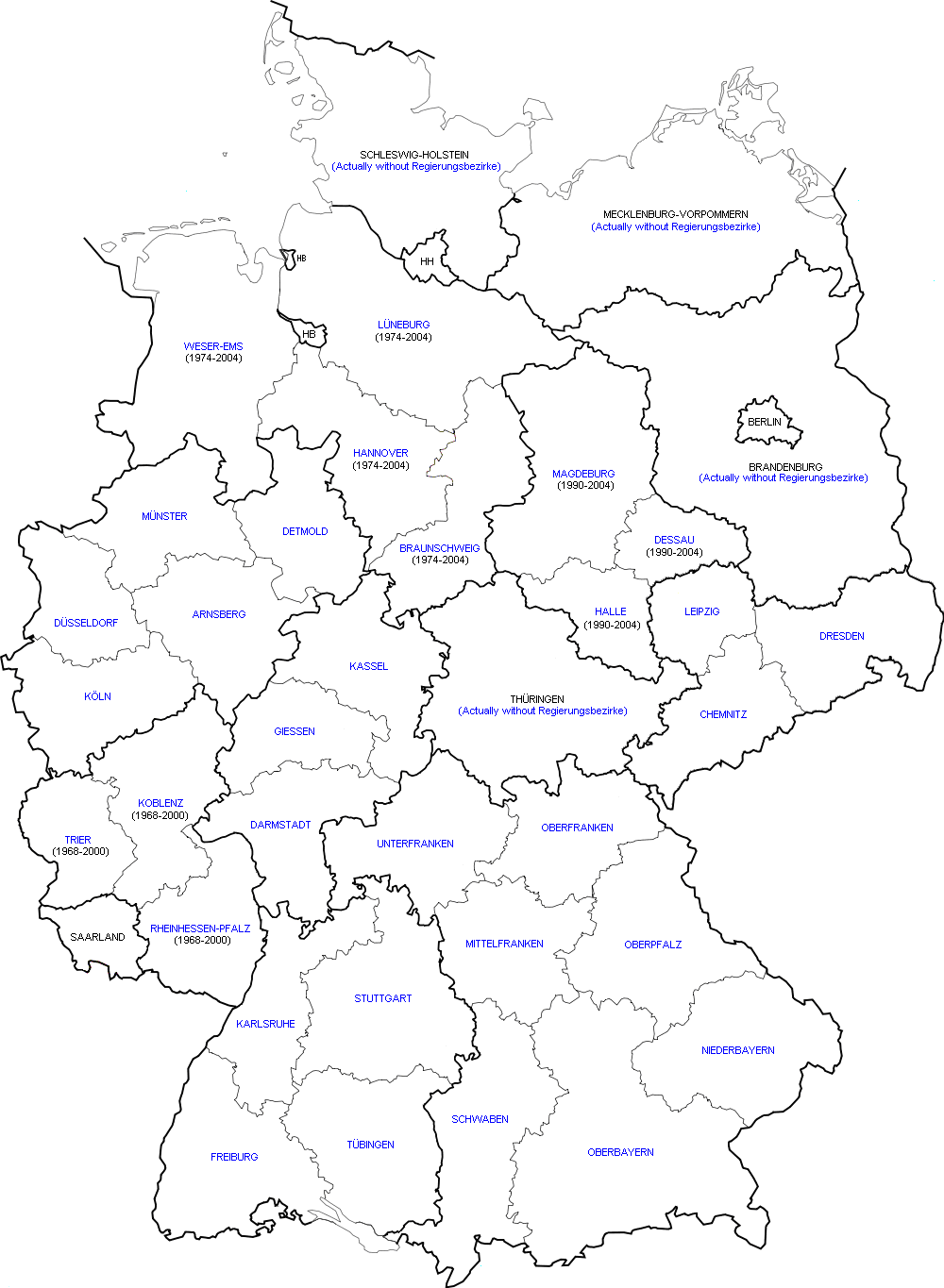 Subdivision map of Germany highlighting the Government regions (Regierungsbezirke) as from 1st August 2008. There are also shown the former RB of Lower Saxony, Rhineland-Palatinate and Saxony-Anhalt